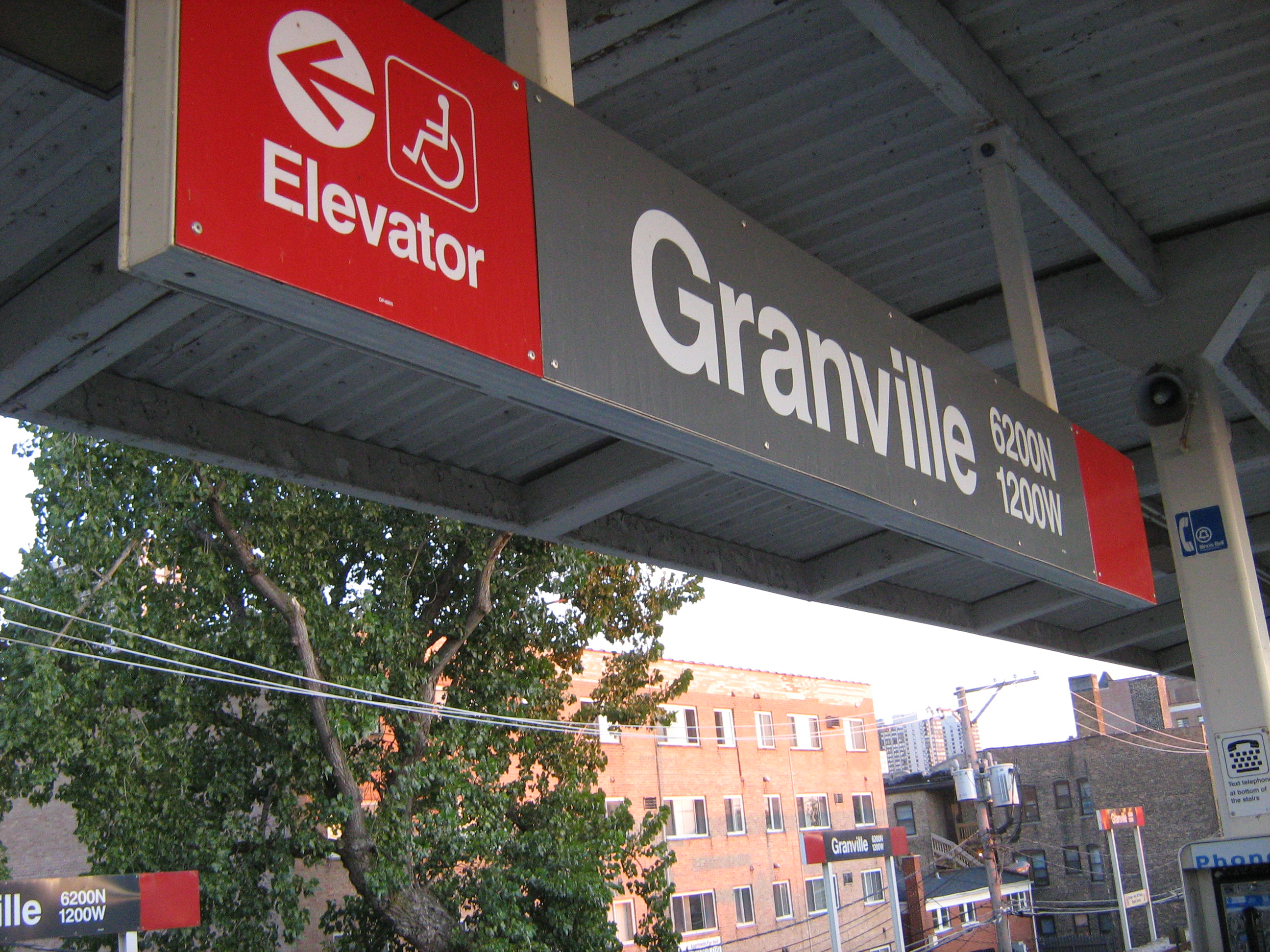 Granville Avenue & Broadway 1119 W Granville Ave Chicago, IL 60660 Red Line (North Main Branch)